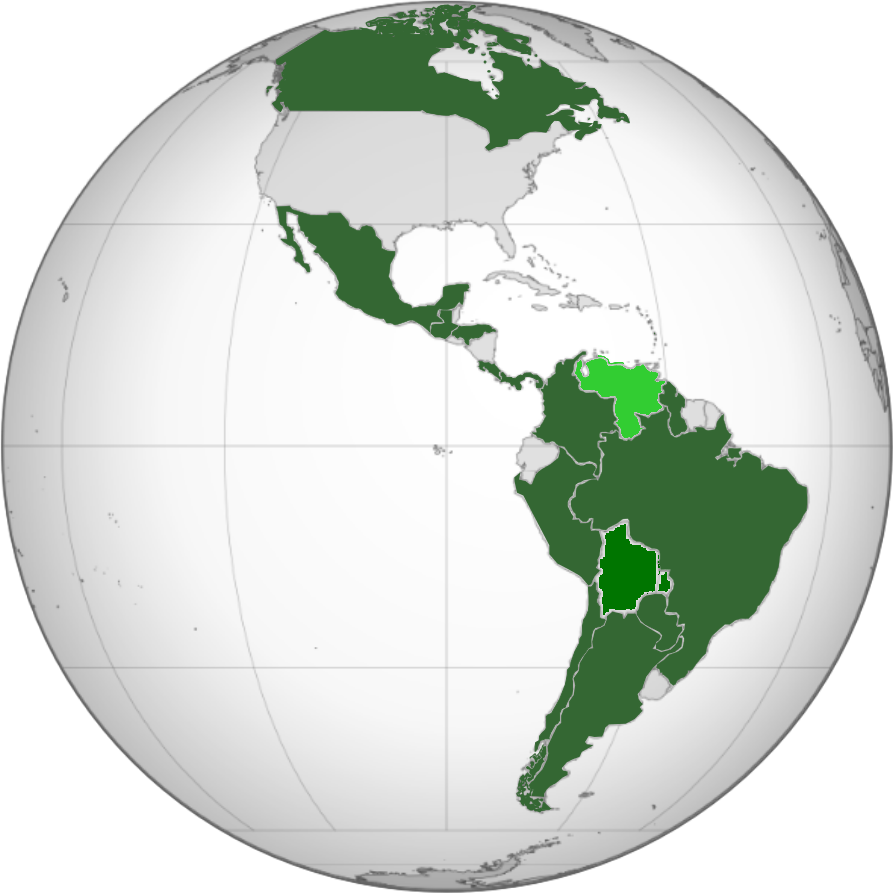 Map of Lima Group member nation. Member states of the Lima Group Venezuela